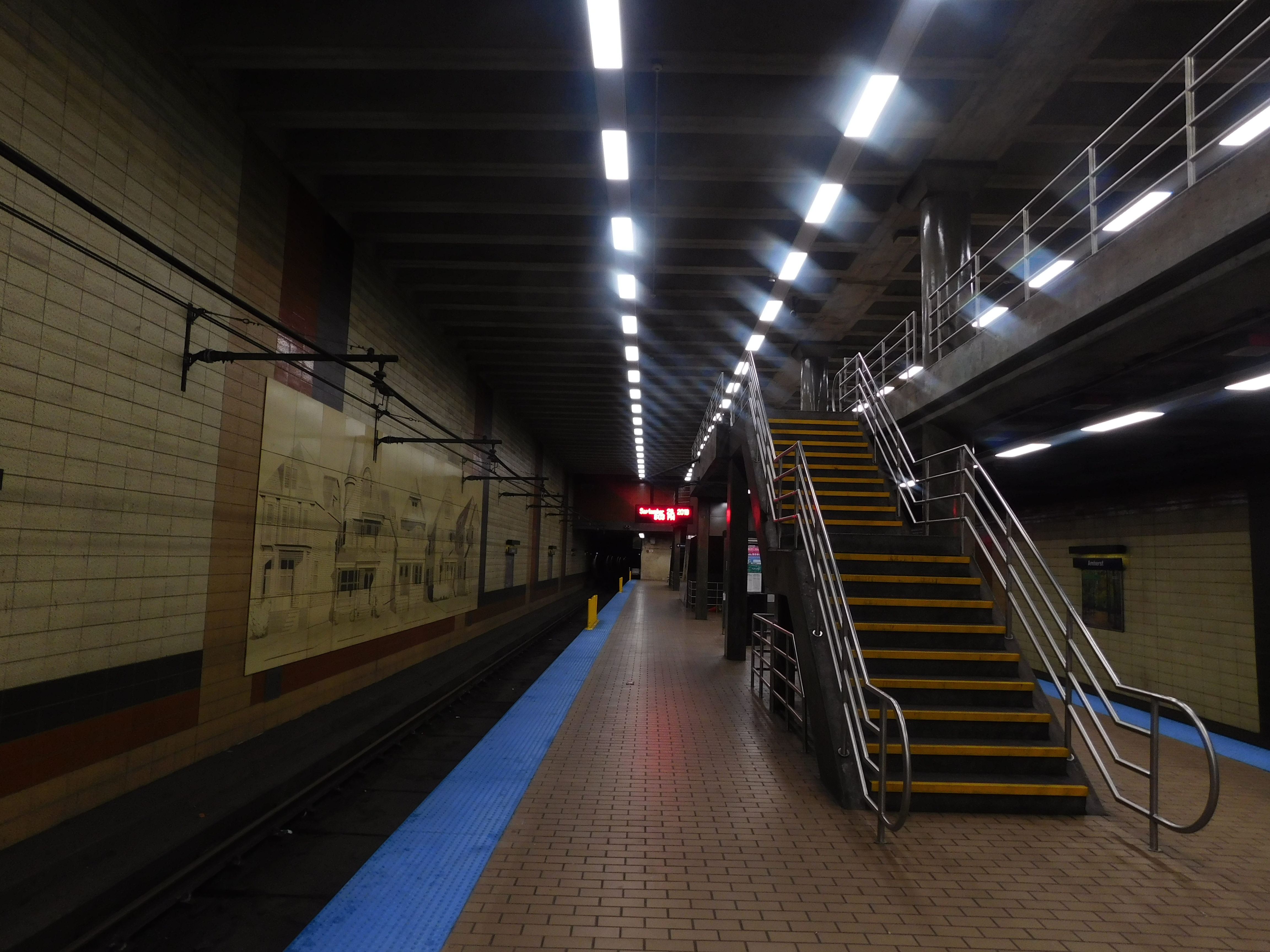 Amherst Street station of the Buffalo Metro Rail in September 2019.